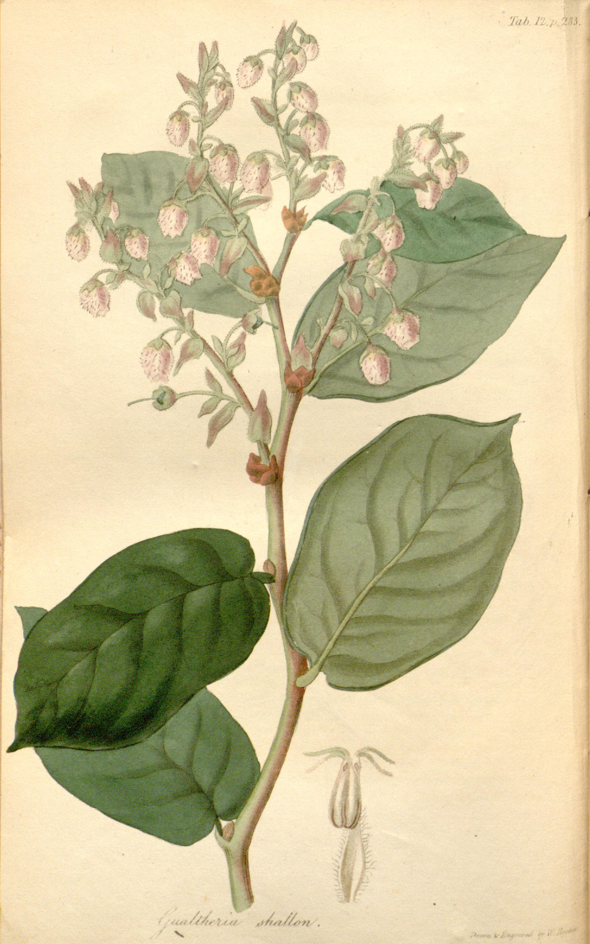 Gaultheria Shallon from "Flora Americae Septentrionalis" (1813) plate 12